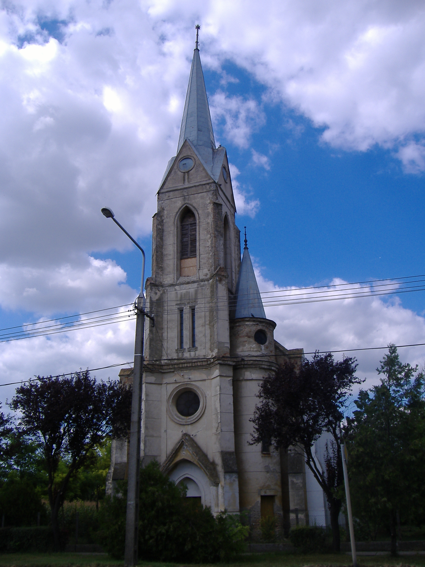 The Reformed church in Magyarcsanád, Hungary.